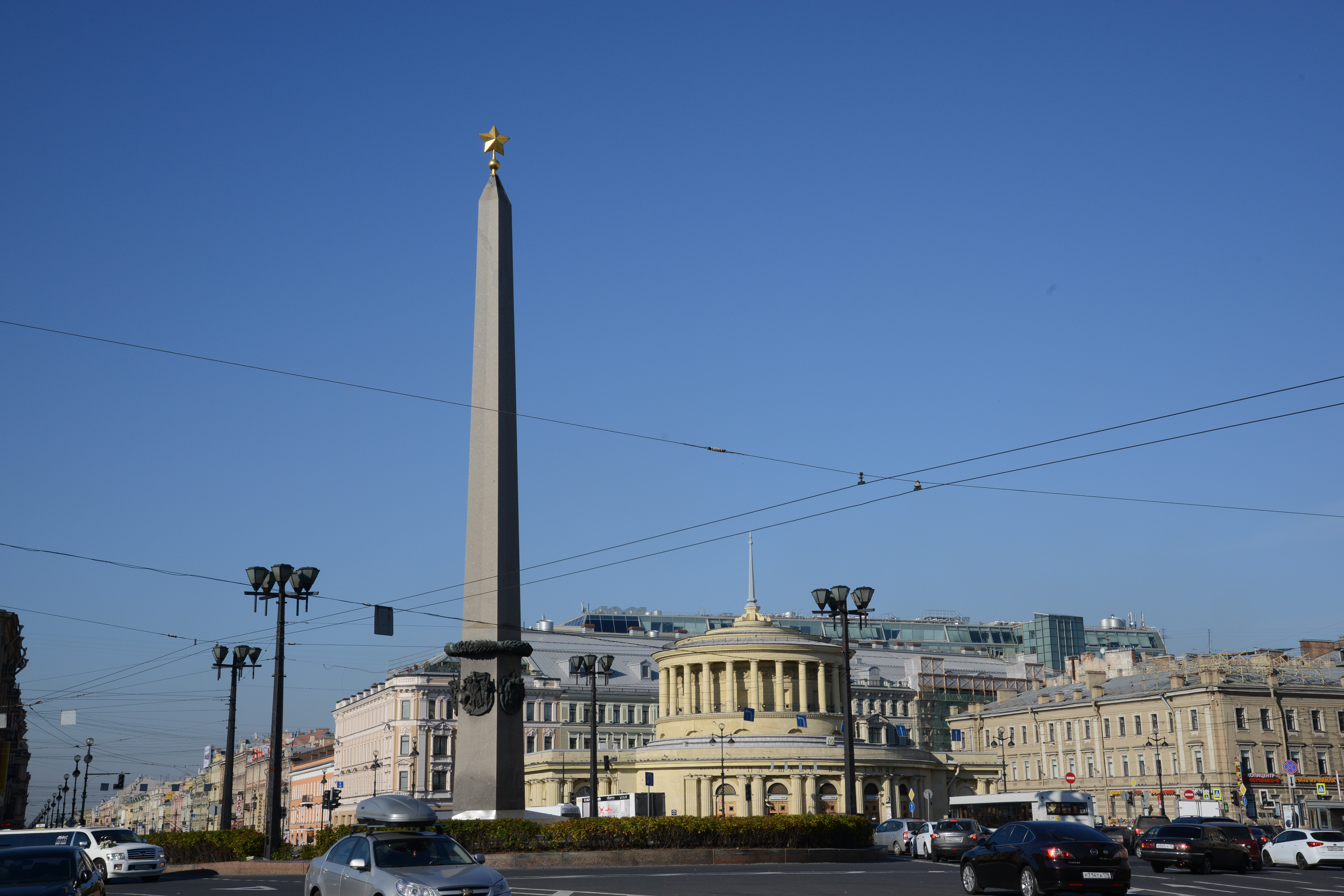 Leningrad Hero City Obelisk (Russian: Обелиск «Городу-герою Ленинграду») is a monument in the shape of obelisk located in Vosstaniya Square in Saint Petersburg, Russia, which was known as Leningrad from 1924 to 1991. It was installed on Victory Day of May 1985 to commemorate the fortieth anniversary of the Red Army's victory in the German-Soviet War. The monument was designed by architects Vladimir Lukyanov and A. I. Alymov. The Hero-City Obelisk is pentahedral in shape; its cross section has the shape of a star. In its lower part, the Obelisk is encircled with a bronze wreath covering the joint of the two monoliths. The monument is decorated with bronze high reliefs devoted to the heroic defence of Leningrad while a gold star shines on its top. After the Alexander Column, it is highest stone monument in Saint Petersburg. When Soviet forces eventually lifted the siege in January 1944, over one million inhabitants of Leningrad had died from starvation, exposure and German shelling. 300,000 soldiers had perished in the defence and relief of Leningrad. Leningrad was awarded the title Hero City in 1945, being the first city to receive that distinction. Installing the obelisk required high skill builders and fitters. Grey granite resembling the colour of soldier's overcoat was chosen to make to body of the monument. The rock was obtained from a quarry of the Vozrozhdenie (literally: Revival) deposit near the town of Vyborg. On 6 November 1983, a monolith weighing 2200 tonnes was separated from the source rock with the help of a controlled explosion. The finishing touches and polishing of the granite were done on the site. In early April 1985, the Obelisk crowned with the "Gold Star" was installed onto its pedestal